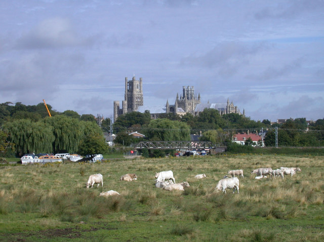 A herd of cows. Oh, and a cathedral.